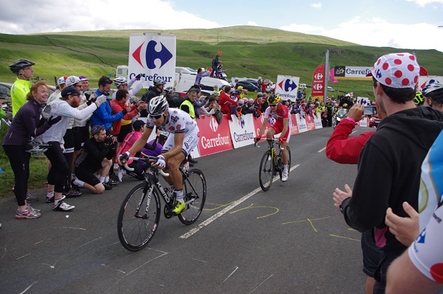 Tour de France 2014 - the race leaders